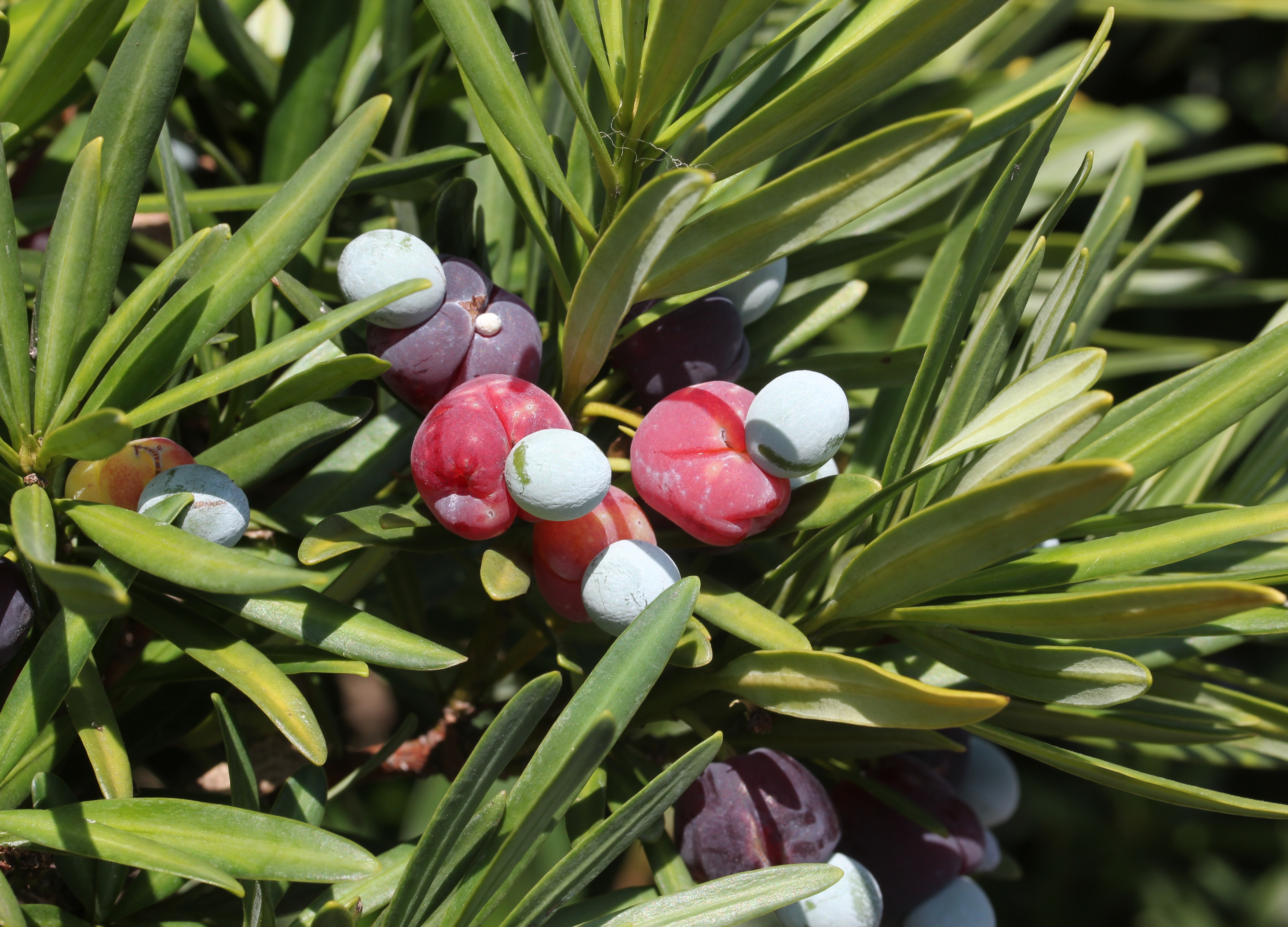 Podocarpus macrophyllus var. maki, cultivated, in Japan.